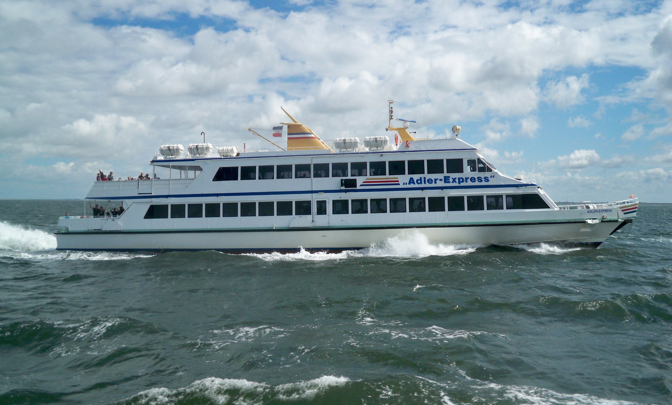 MV Adler Express in the Wadden Sea, North Friesland, Germany